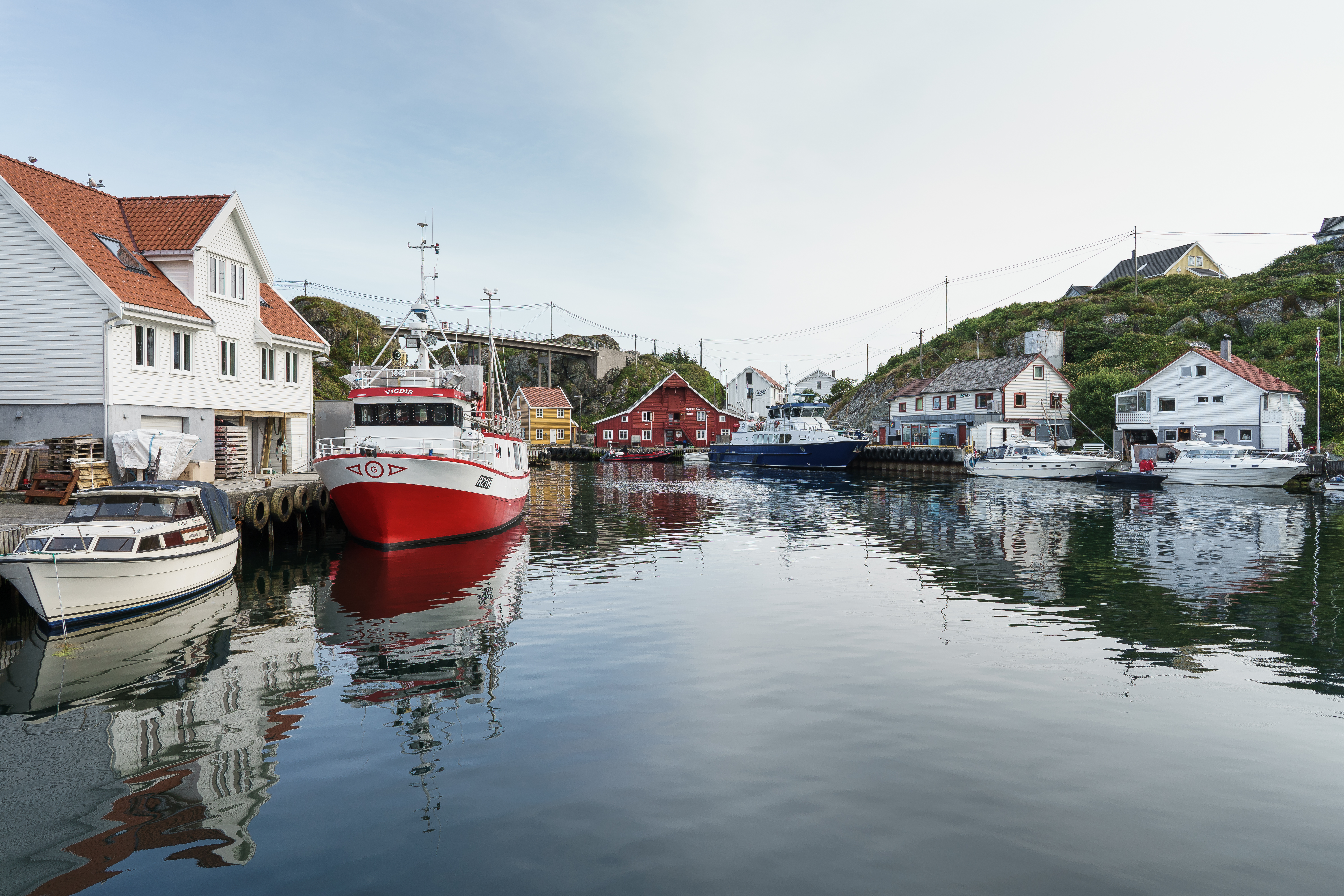 Røvær / Norway - Sjøhus, ferry pier, shop / post office